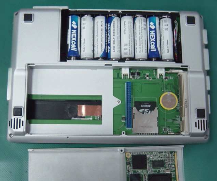 The bottom of the battery powered Gecko EduBook. On the lower edge of the image you can see the Vortex86 CPU Board. nDevil article